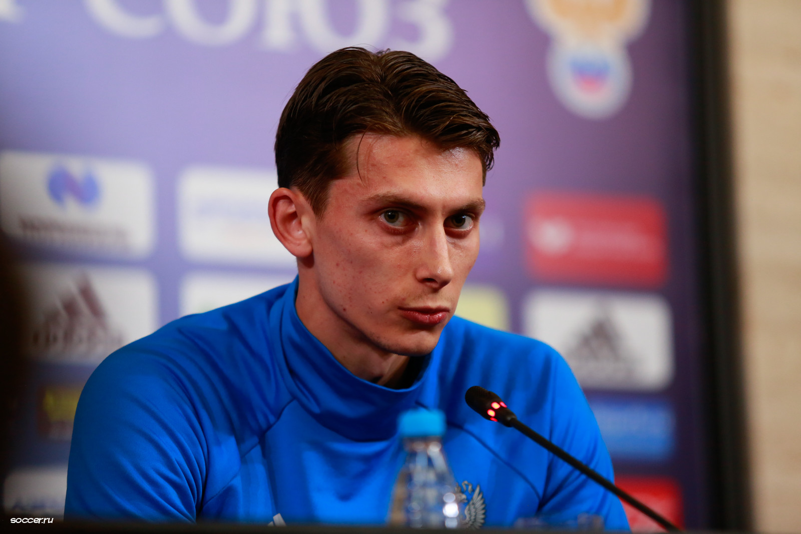 Ilya Kutepov